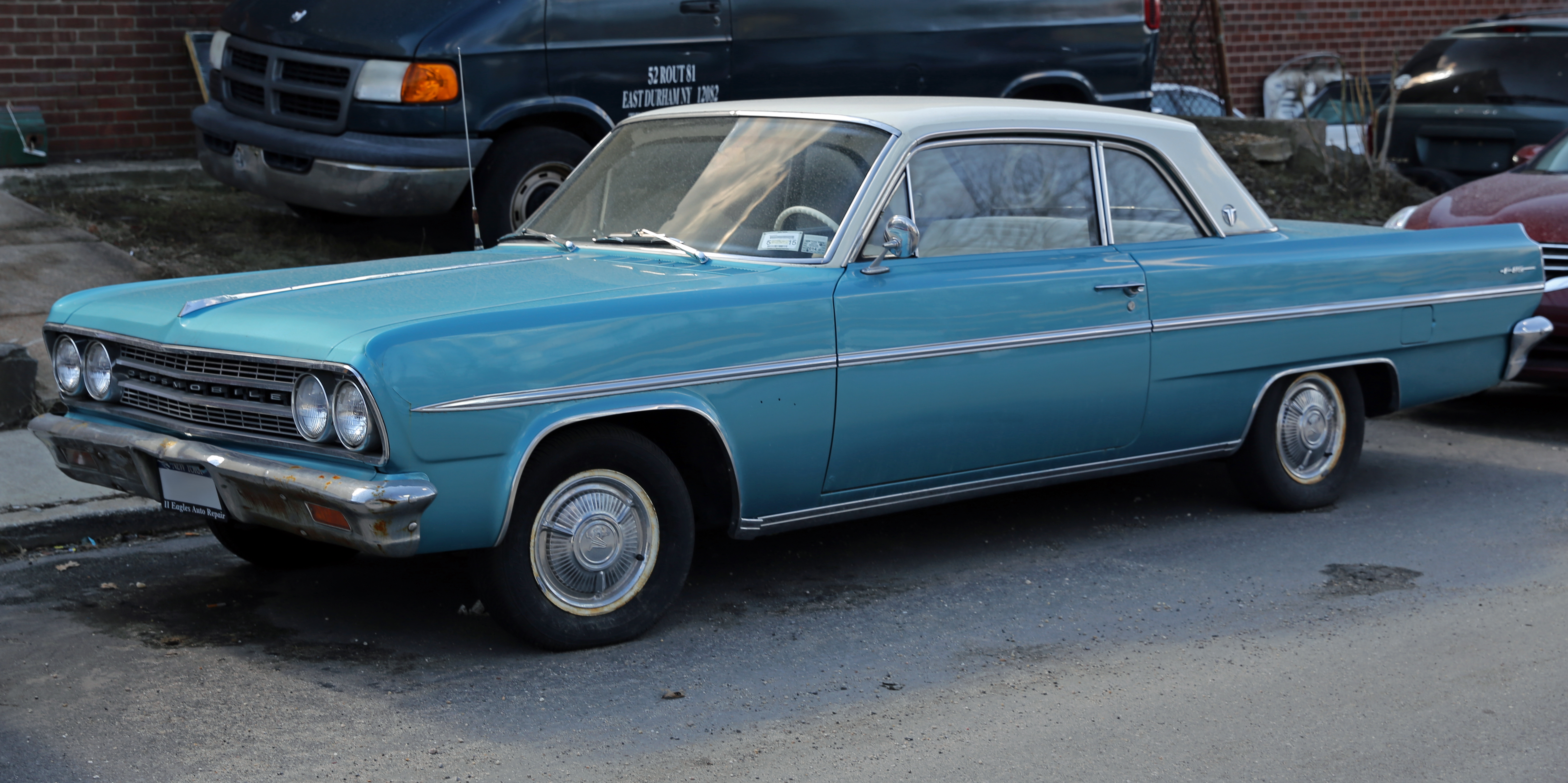 1963 Oldsmobile F-85 Cutlass two-door coupe, built in the Lansing, MI plant. This bodystyle was the most popular of Oldsmobile's compacts in 1963.